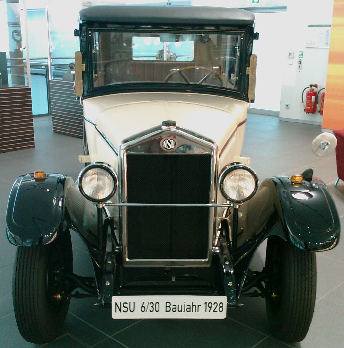 1928 NSU 6/30 @ Audi Forum Neckarsulm